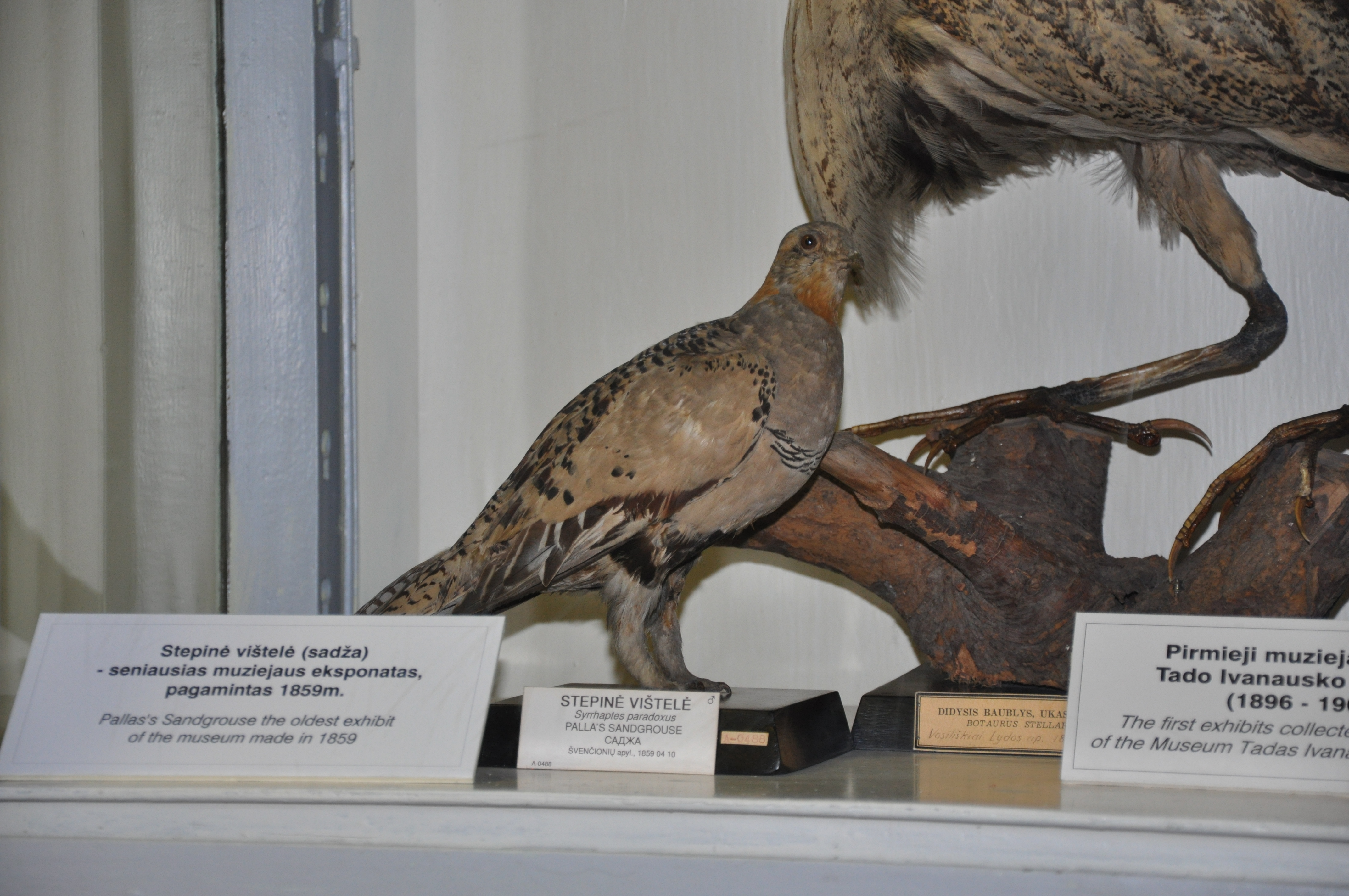 Kaunas Tadas Ivanauskas zoological museum: teh oldest exhibit - Syrrhaptes paradoxus (1859).